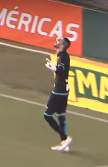 Santos FC's goalkeeper Vanderlei in action against Palmeiras.